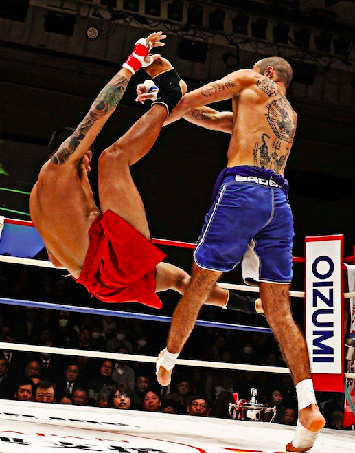 Dave Leduc sweeping Phoe Kay at Lethwei in Japan 2 - LEGACY